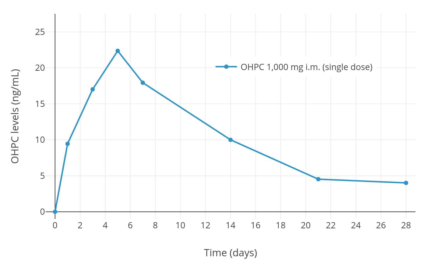 Levels of hydroxyprogesterone caproate after a single intramuscular injection of 1,000 mg hydroxyprogesterone caproate (OHPC) to 5 women with endometrial cancer. Source of the values: (1985). "Intramuscular administration of hydroxyprogesterone caproate in patients with endometrial carcinoma. Pharmacokinetics and effects on adrenal function". Acta Obstet Gynecol Scand 64 (6): 519–23. PMID 2932883.